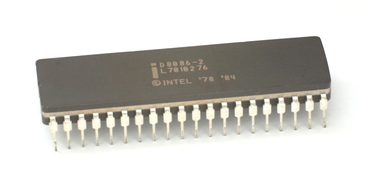 CPU Intel D8086